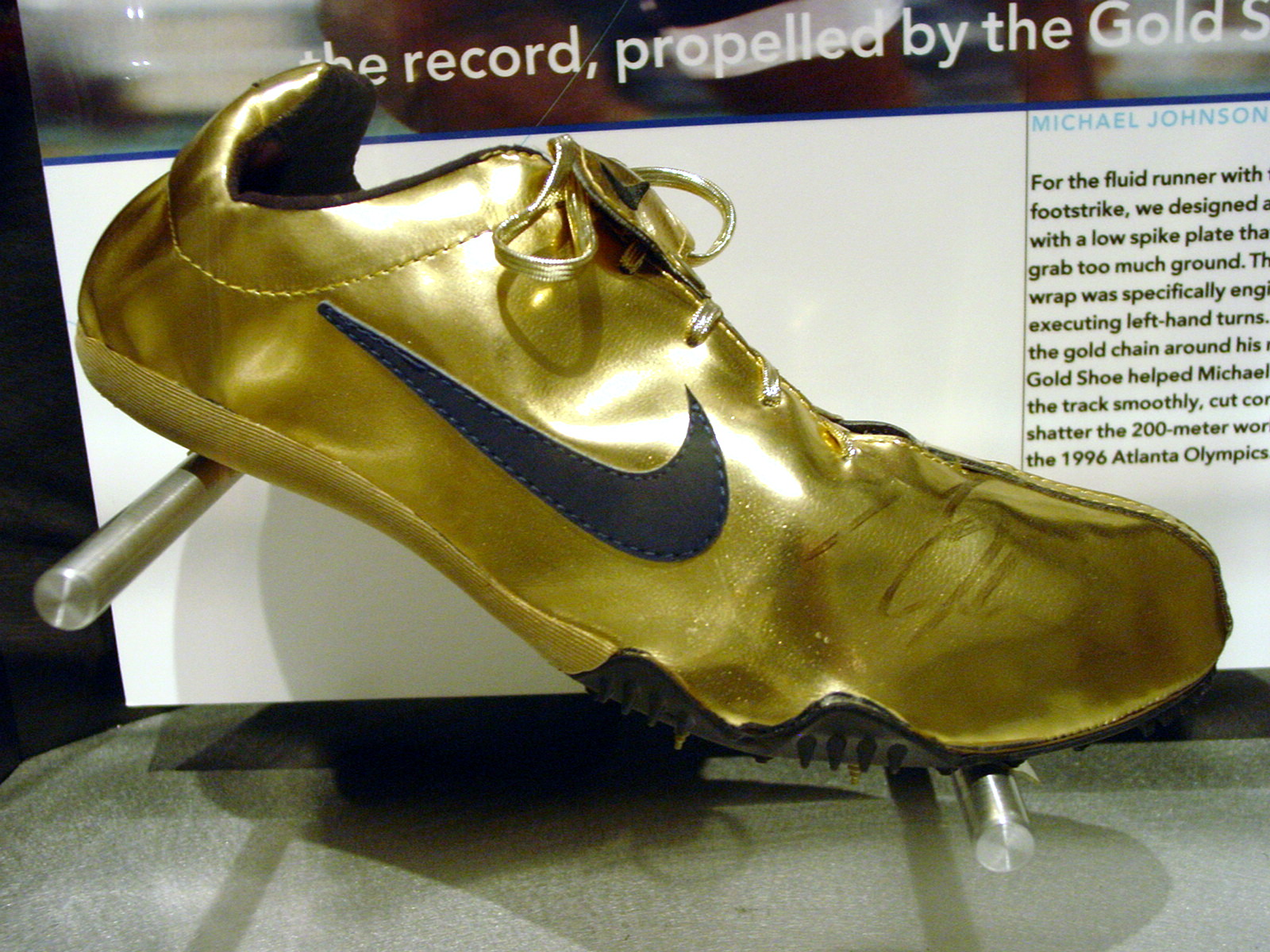 Golden shoes Michael Johnson Nike town Honolulu